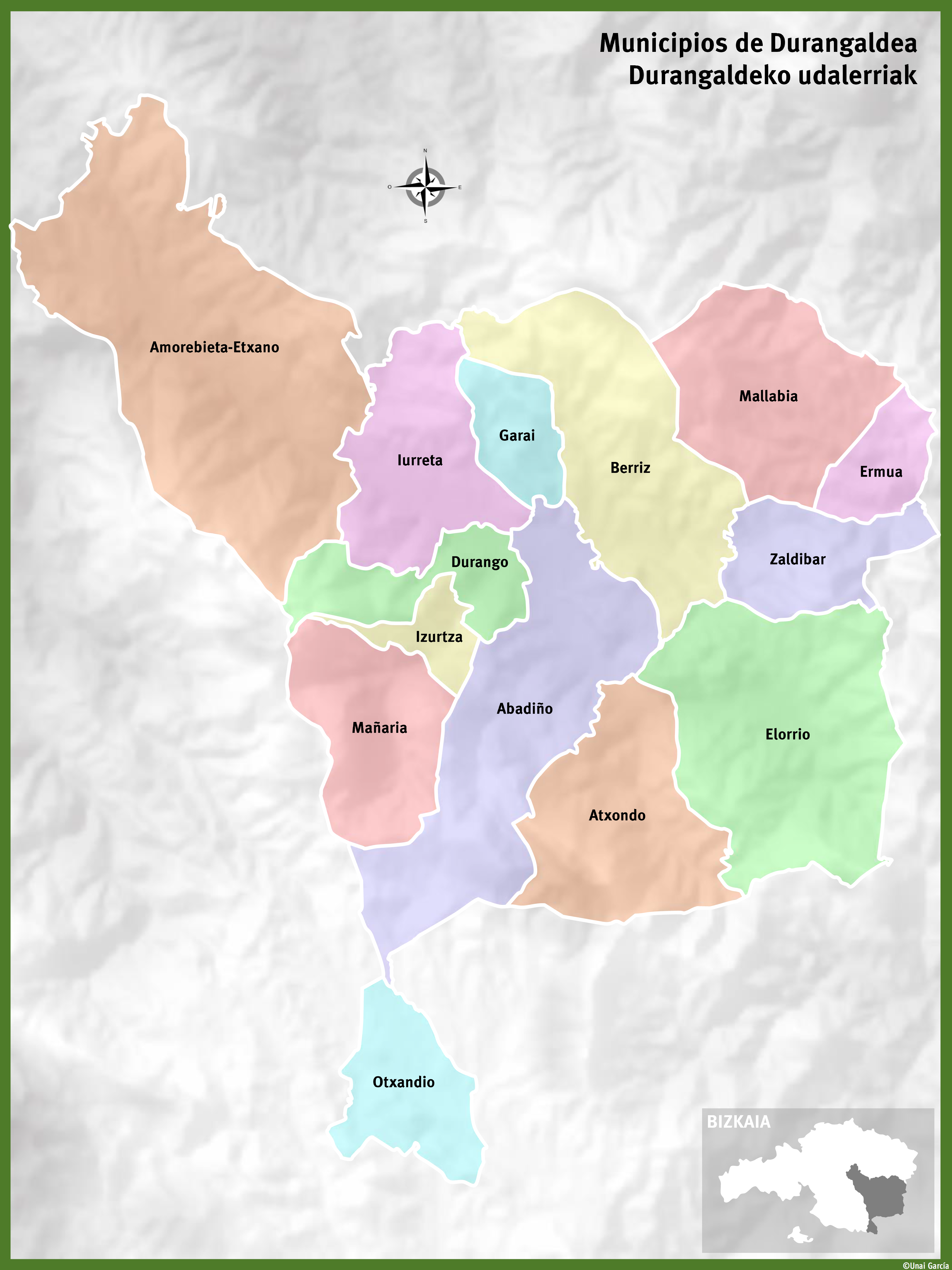 Municipal map of Durangaldea